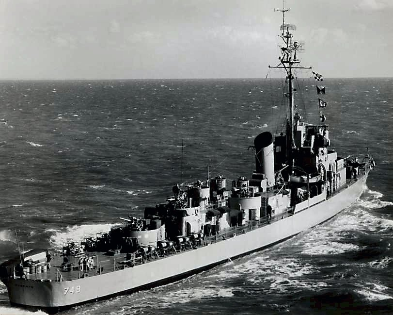 The U.S. Navy destroyer escort USS Roberts (DE-749) underway at sea, circa in the 1950s.